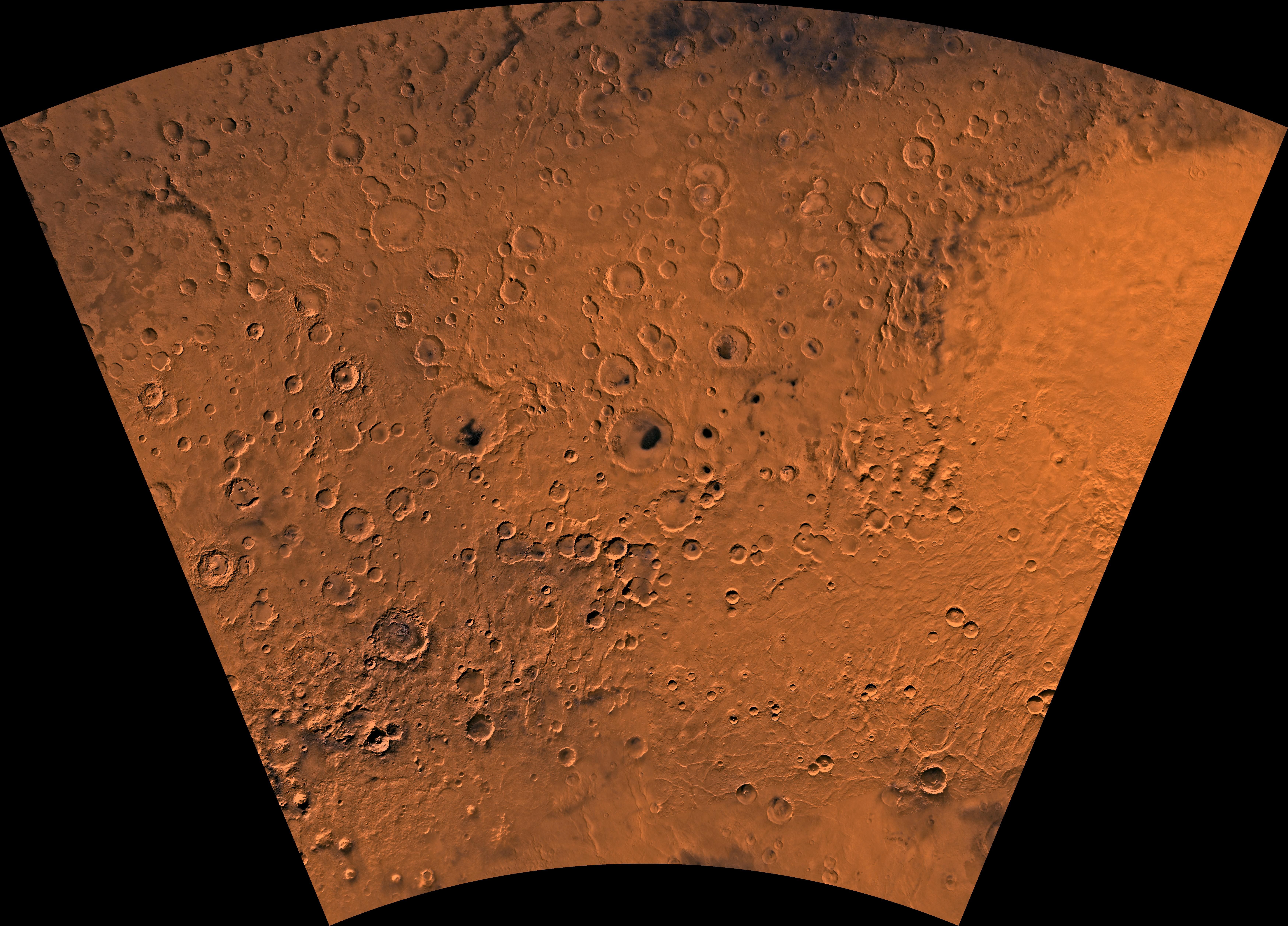 The Martian region Noachis Terra. Mars digital-image mosaic merged with color of the MC-27 quadrangle, Noachis region of Mars. Heavily cratered highlands dominate the Noachis quadrangle. The northeastern part is marked by the western half of the ancient large Hellas basin, defined by a rim of rugged mountain blocks that surrounds a nearly circular expanse of light-colored plains. The southeastern part is marked by the Peneus caldera and part of the Amphitrites shield volcano and associated ridged plains that may be basaltic flows. Latitude range -65 to -30 degrees, longitude range -60 to 0 degrees.